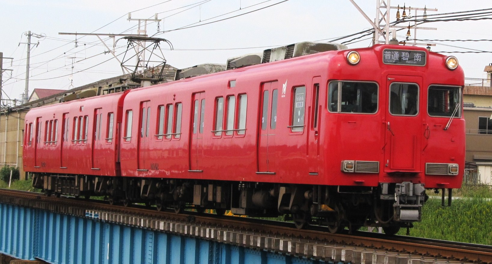 Meitetsu 6000 series. Bound for Hekinan.